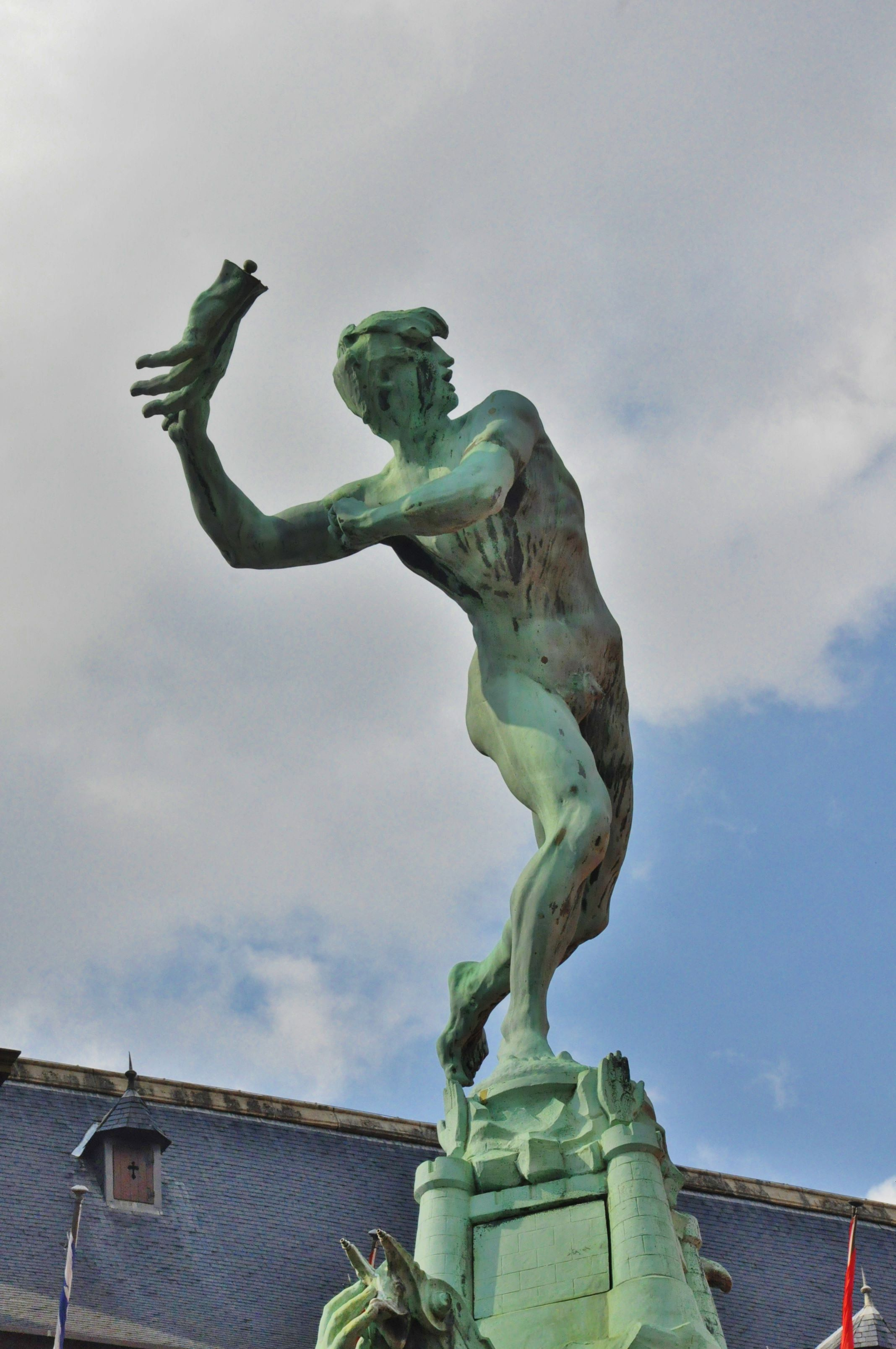 Statue of Silvius Brabo in Antwerp, Belgium. He is a mythical Roman soldier who is said to have killed a giant, and by this would have created the name Brabant.